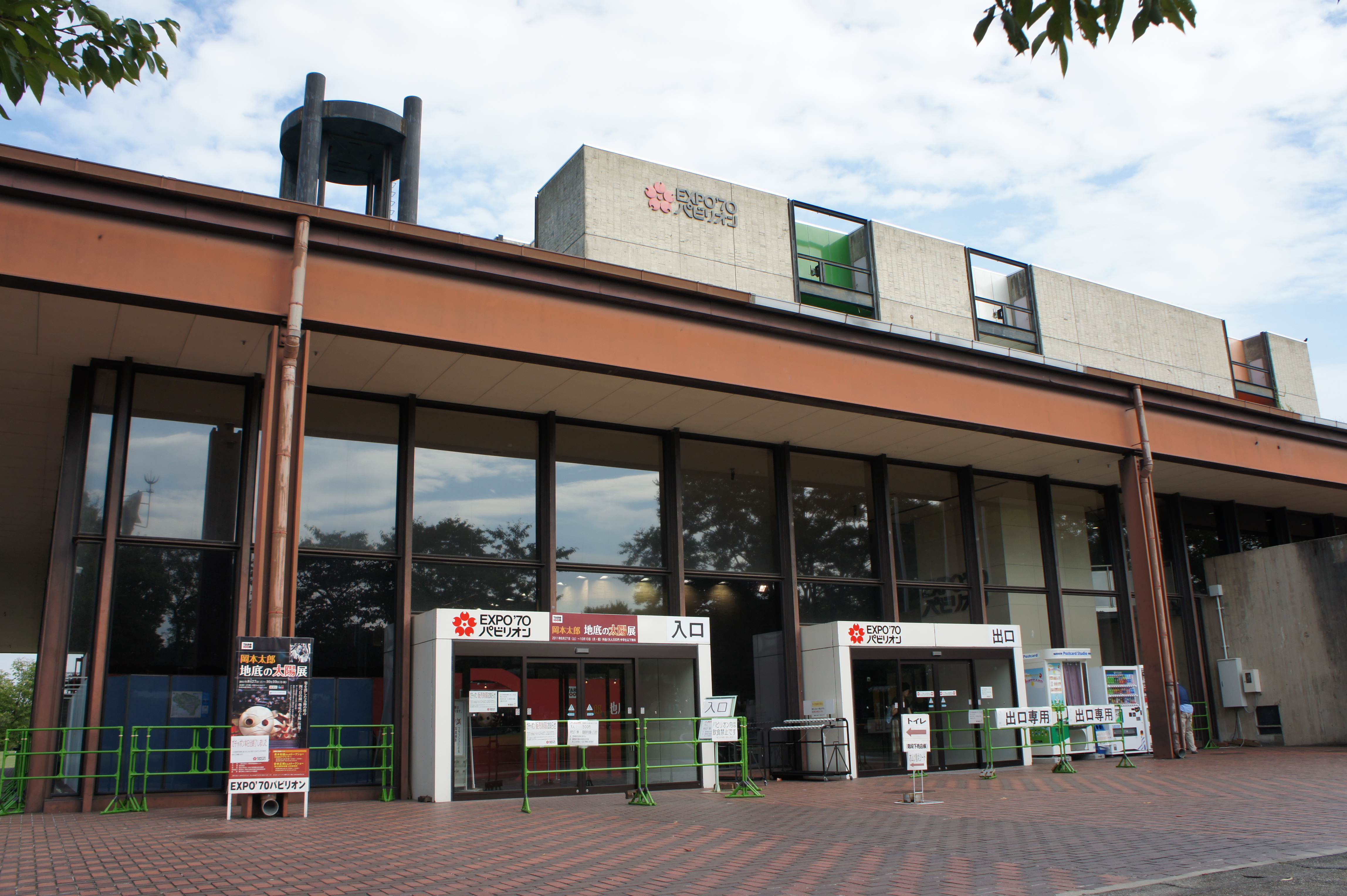 EXPO'70 Pavilion, 1 Senri-Banpakukoen Suita-City Osaka Japan.